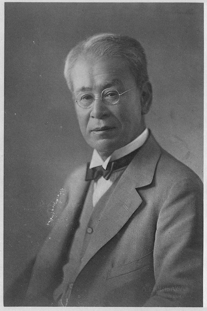 Portrait of Makino Tomitaro (牧野富太郎, 1862 – 1957)